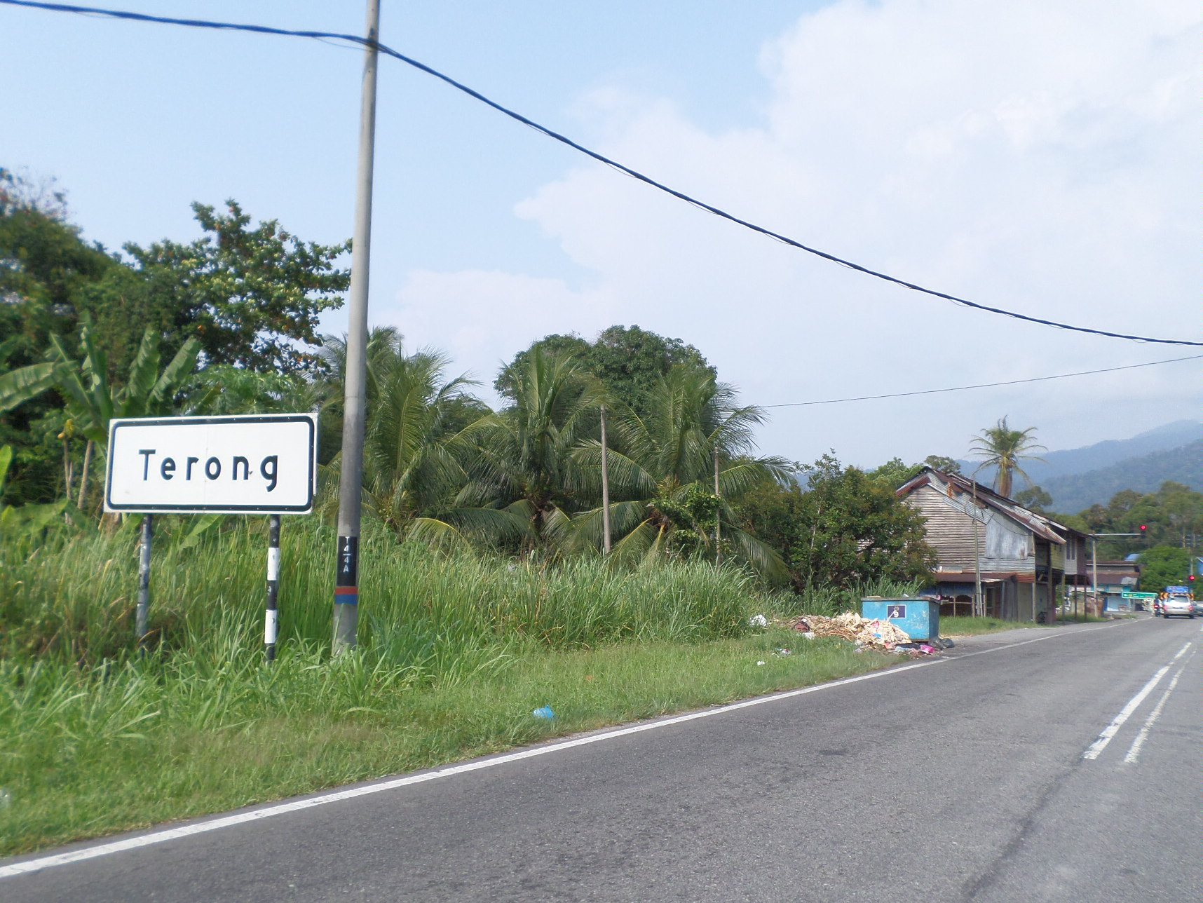 Terong, Larut, Matang and Selama, Perak, Malaysia